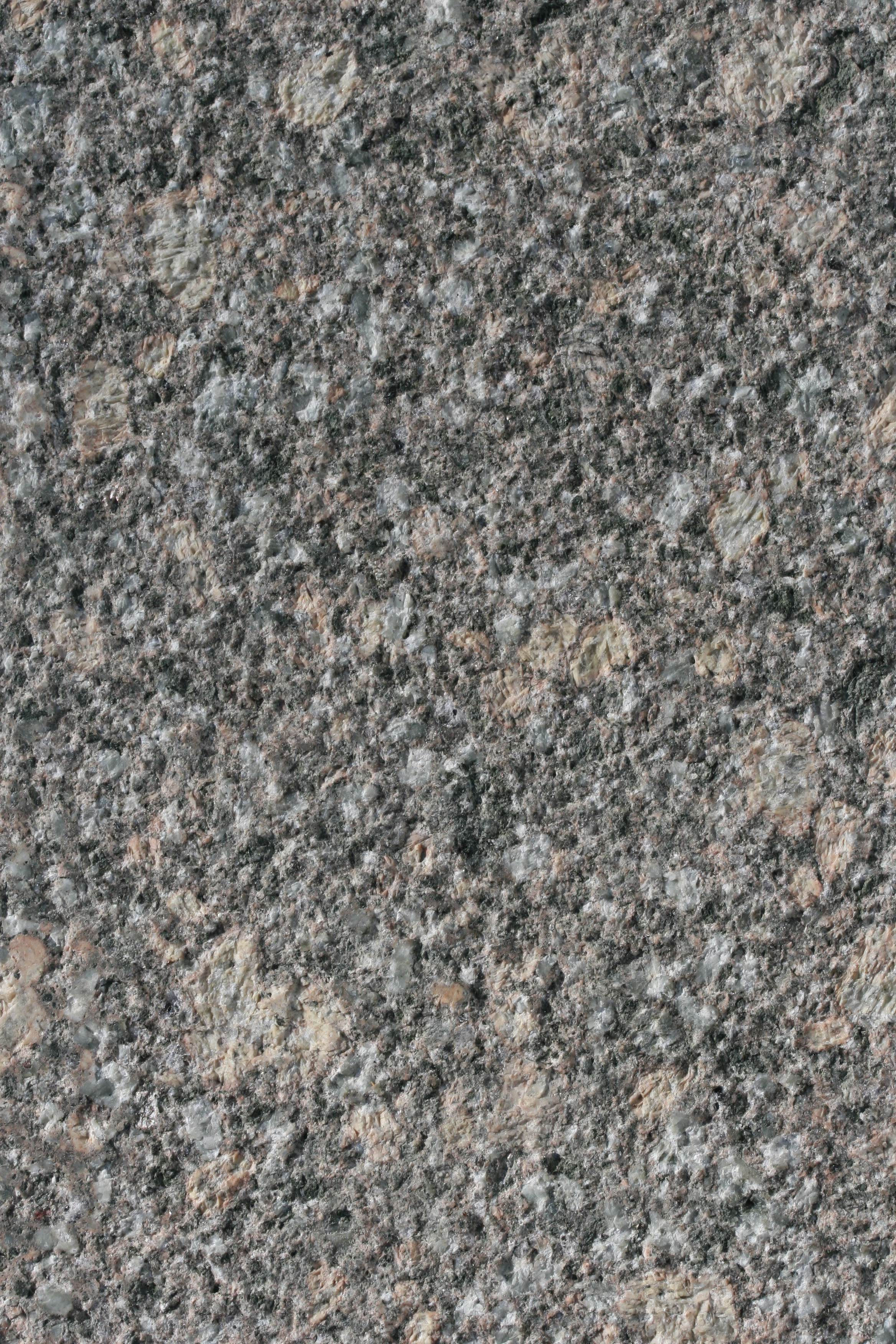 Bush hammered granite porphyry; sample about 25 x 15 cm